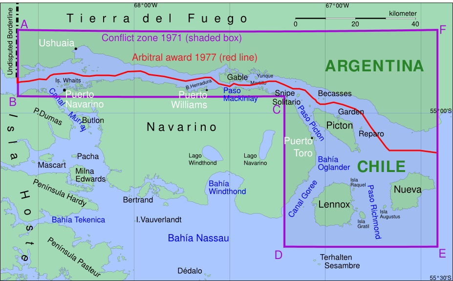 Arbitral award 1977, border running approximately along the center of the Channel. Copyvio from